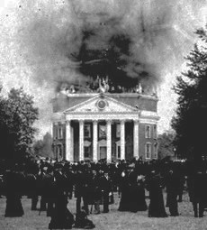 Burning of The Rotunda, University of Virginia. 画像:GreatFire.jpg